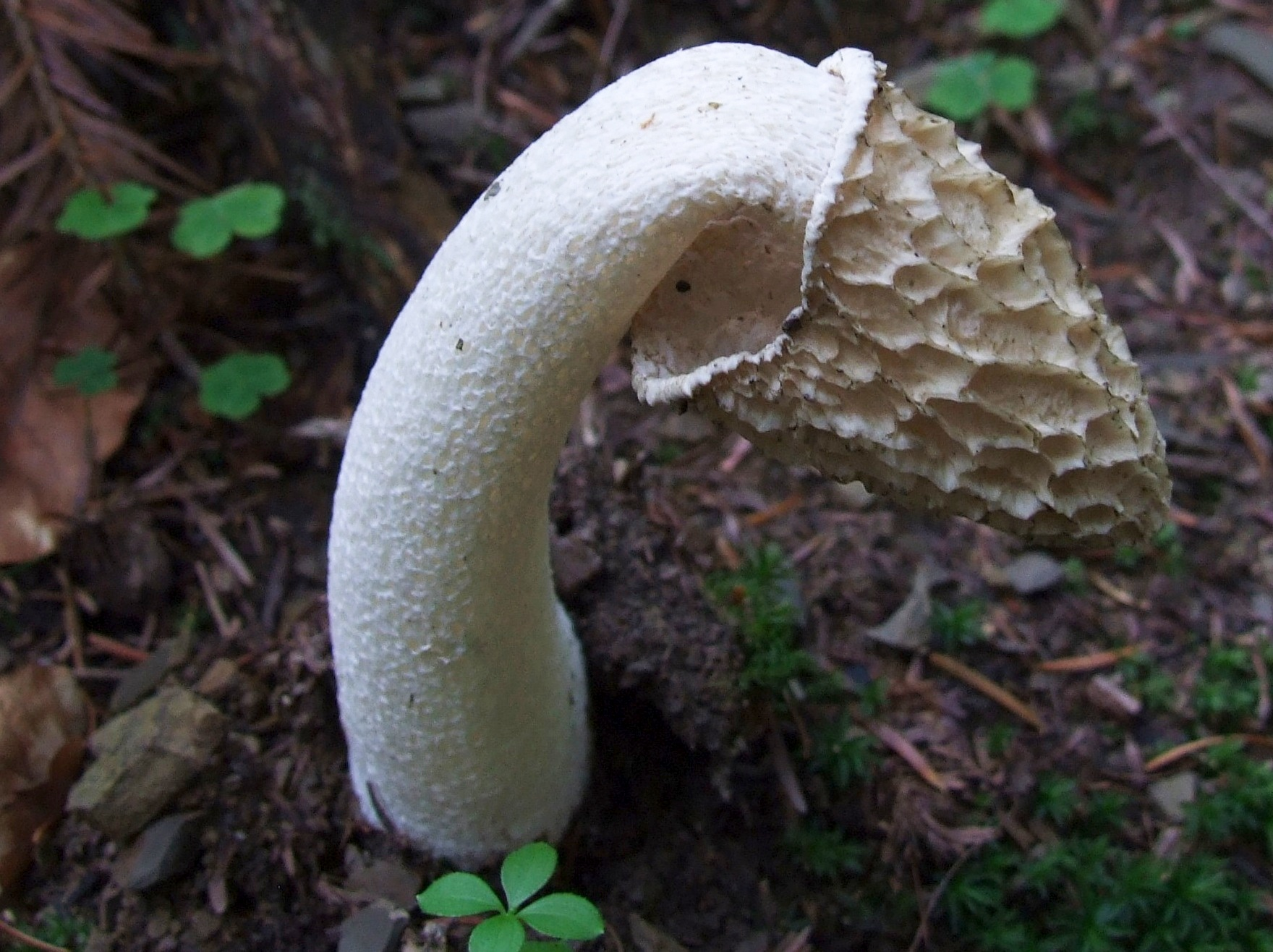 Phallus impudicus